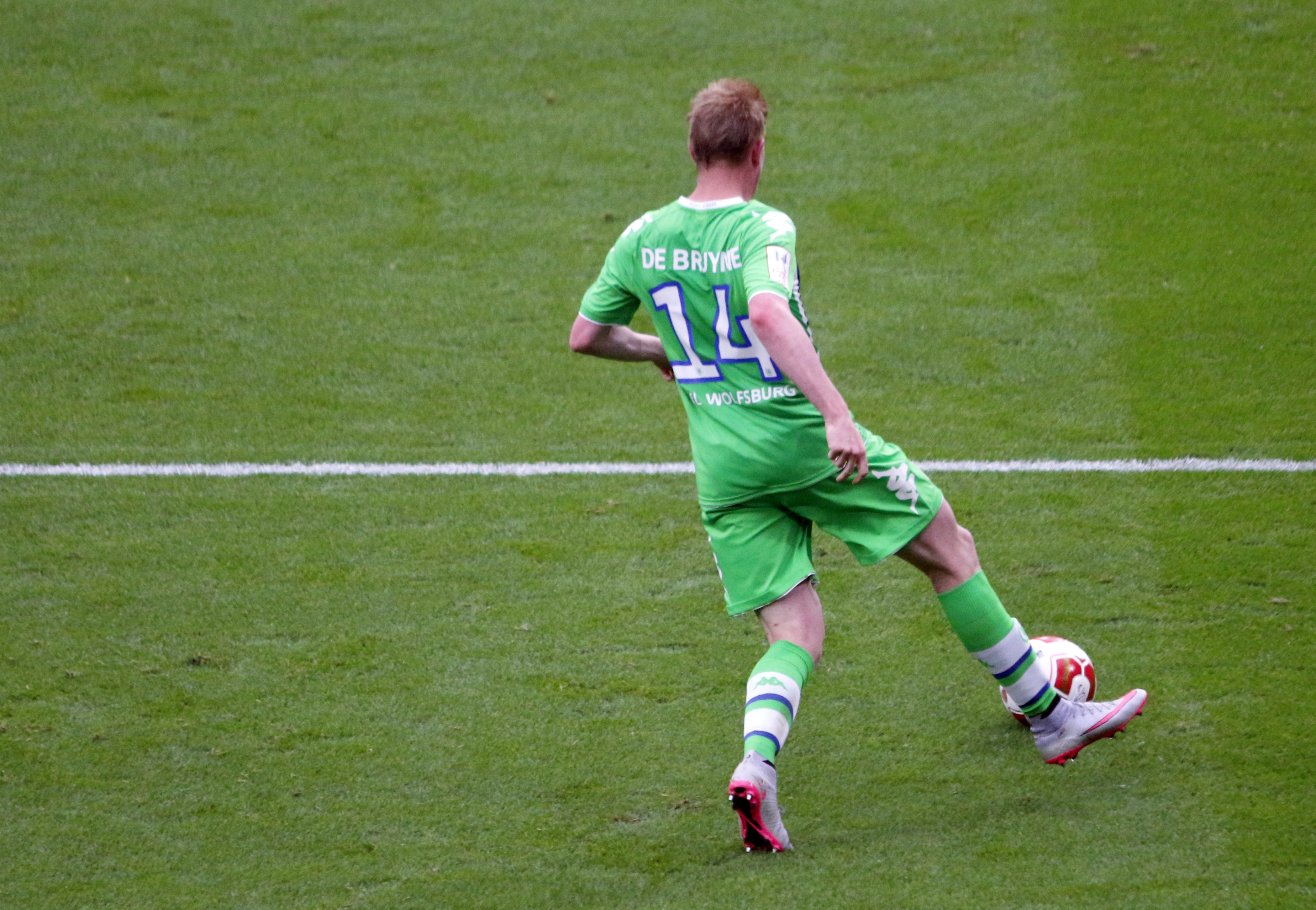 Kevin De Bruyne; Emirates Cup 2015, Emirates Stadium